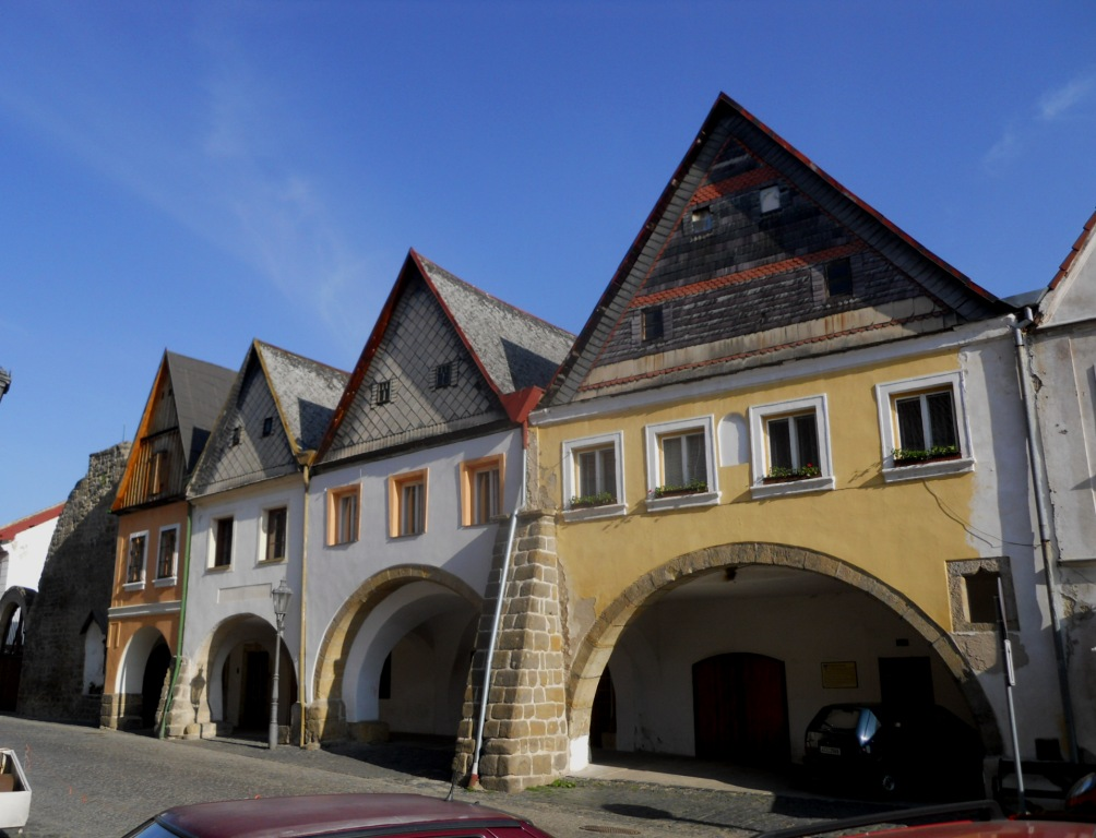 Úštěk, houses on the market